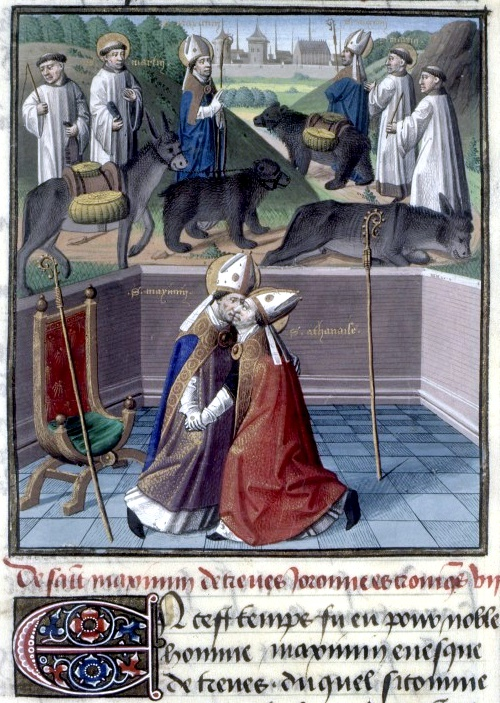 St, Maximinus von Trier empfängt St. Athanasius den Großen